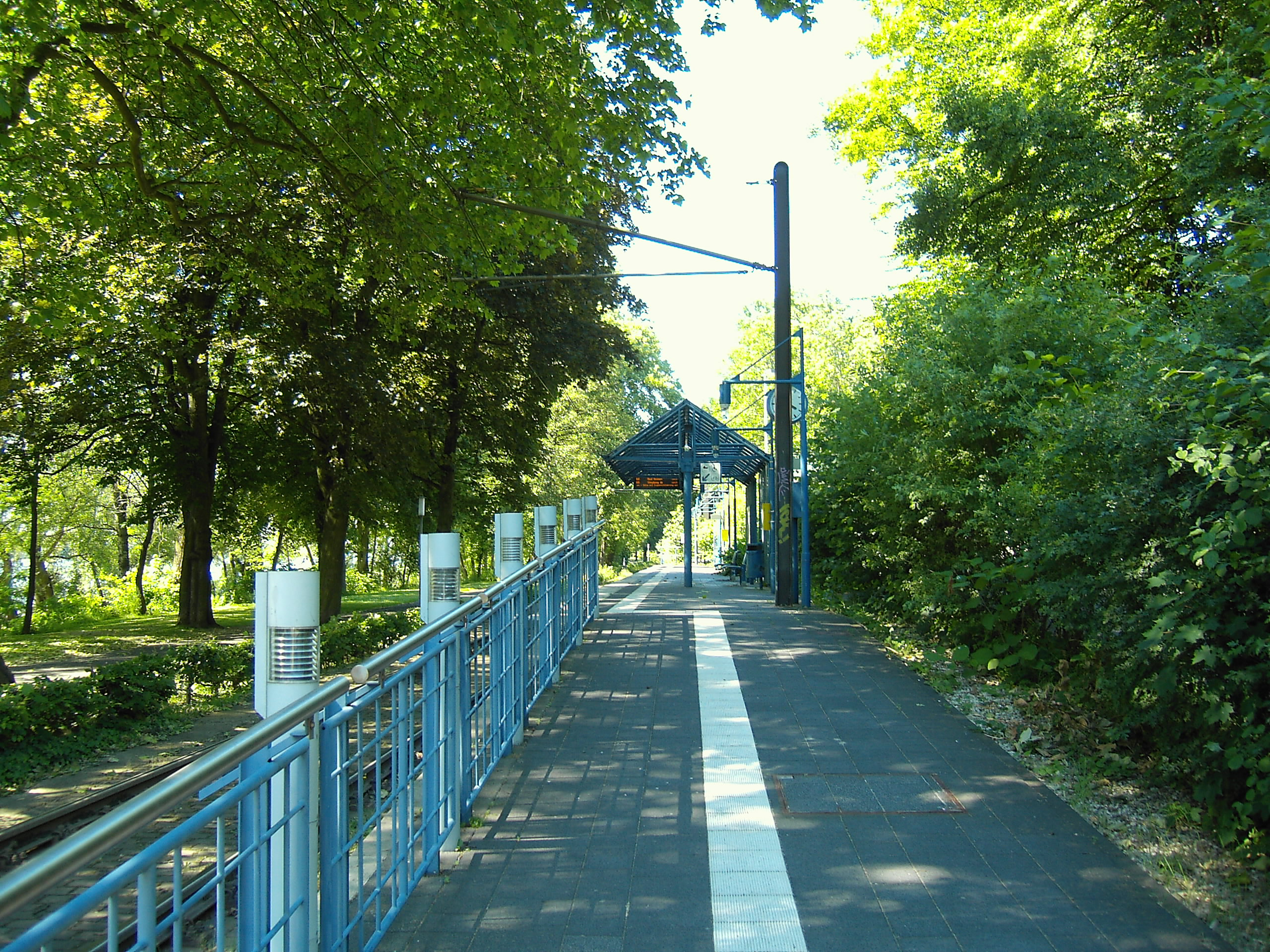 The city railway stop Bad Honnef Am Spitzenbach of the city railway line 66 (that part of the railway is called Siebengebirgsbahn).